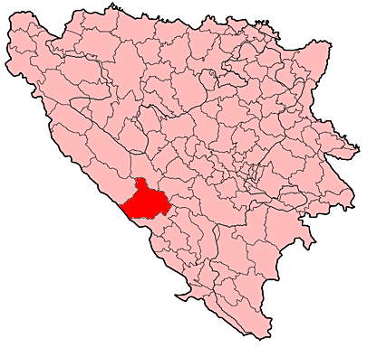 Location of Tomislavgrad municipality in Bosnia and Herzegovina.